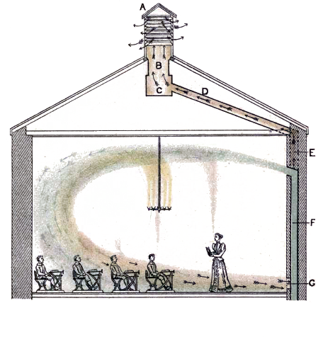 This file has been extracted from another file: N&AMOV - School.png